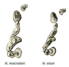 Comparative illustration of sea mink and Amrican mink dentition